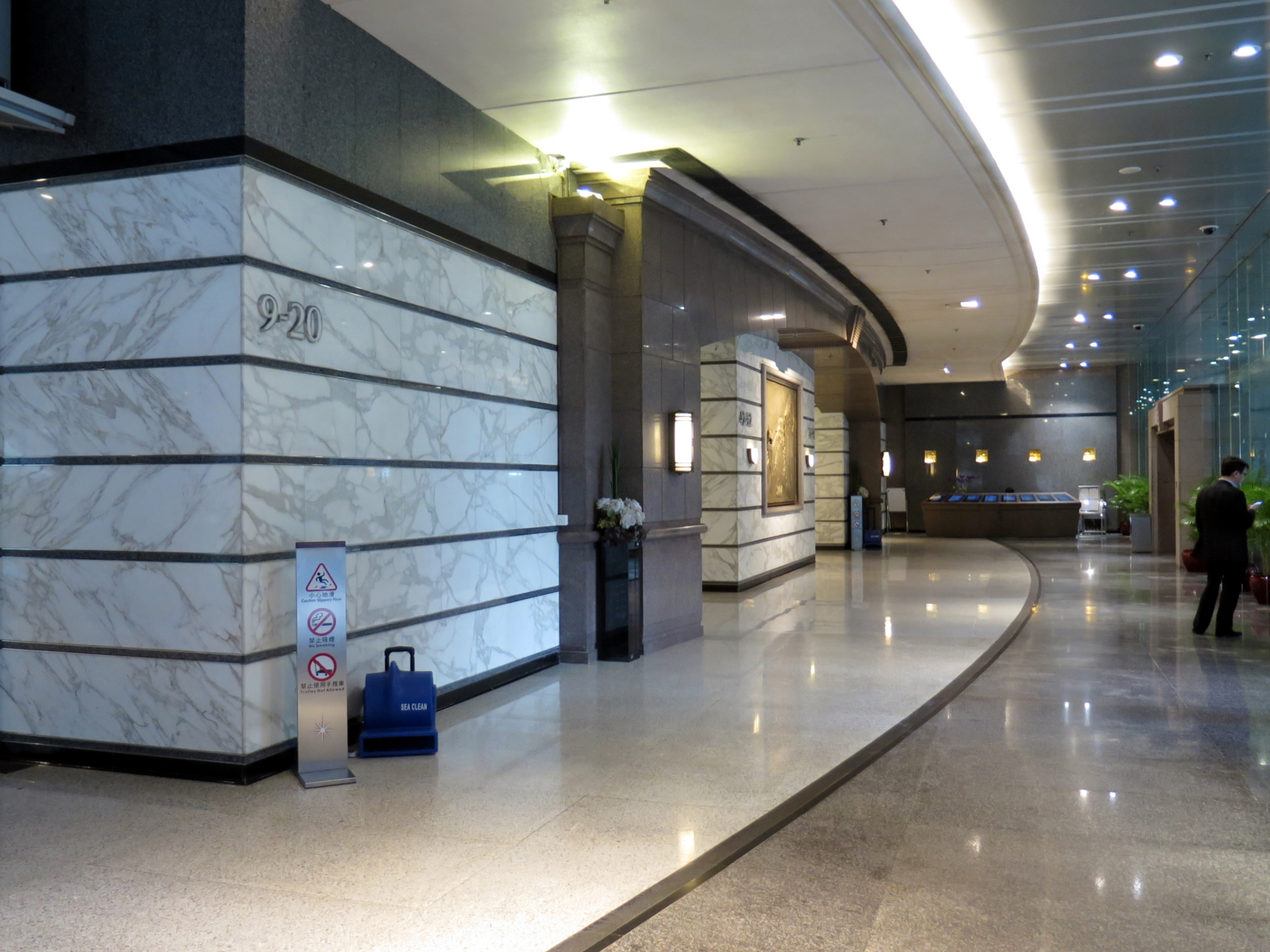 Cosco Tower Lobby